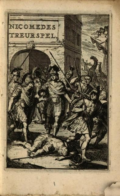 Engraving from Nicomedes, tragedy, translated by Katharina Lescailje (1649-1711), after Pierre Corneille (1606-1684), published in Amsterdam in the Netherlands